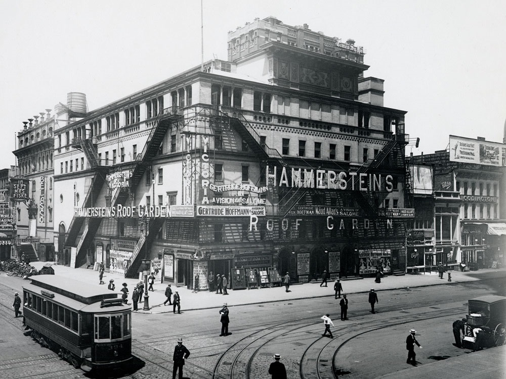 Hammerstein's Victoria Theater and Roof Garden, northwest corner of 42nd Street and 7th Avenue in Manhattan, showing signs announcing "Gertrude Hoffmann in Maude Allan's A Vision of Salome". An uncropped version of this photograph is at the website of the Museum of the City of New York, ID: 93.1.1.20361. The site's zoom feature (click the magnifying glass icon) shows a sign at left center (Lyric Theatre) urging, "See The Mimic World at Casino". The Mimic World played the Casino July 9-September 26, 1908. Hoffmann danced Salome at the Victoria July 13-September 26, 1908 (and joined The Mimic World at the Grand Opera House on September 28). Sources "Casino Theatre", Internet Broadway Database website "Summer Amusement Attractions", The New York Times (Sunday, July 5, 1908) "A 'Salome' Dance by Miss Hoffmann'", The New York Times (July 14, 1908) "At Other Theatres. Grand Opera House", The New York Times (September 27, 1908)